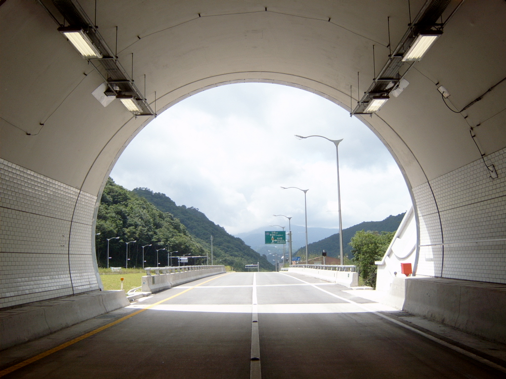 Misiryeong Tunnel, Gangwon Province, Korea - The Misiryeong Tunnel opened in 2006 running from Inje to Sokcho under the Misiryeong Ridge, Taebaek Mountains. It was the second longest road vehicle tunnel in Korea at that time. It is a twin bore tunnel of 3.69km in length and is part of the Misiryeong Penetrating Road.